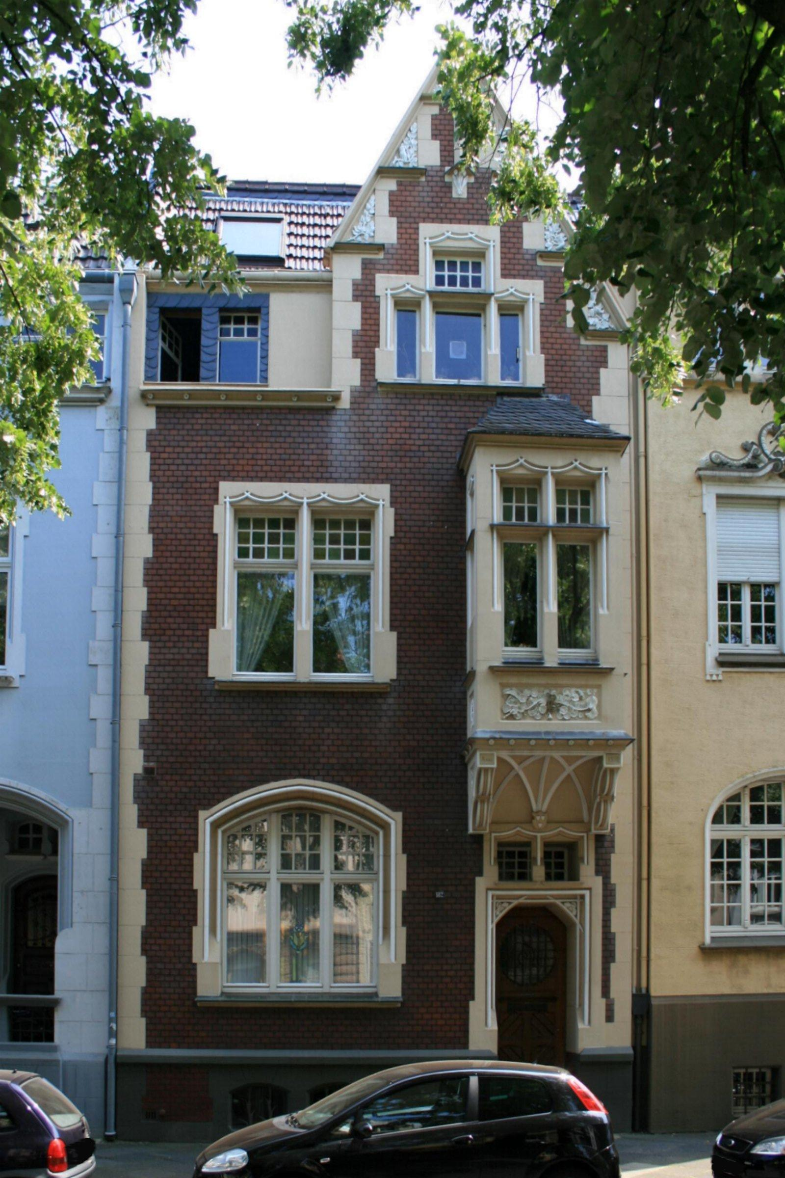 Cultural heritage monument No. B 068 in Mönchengladbach